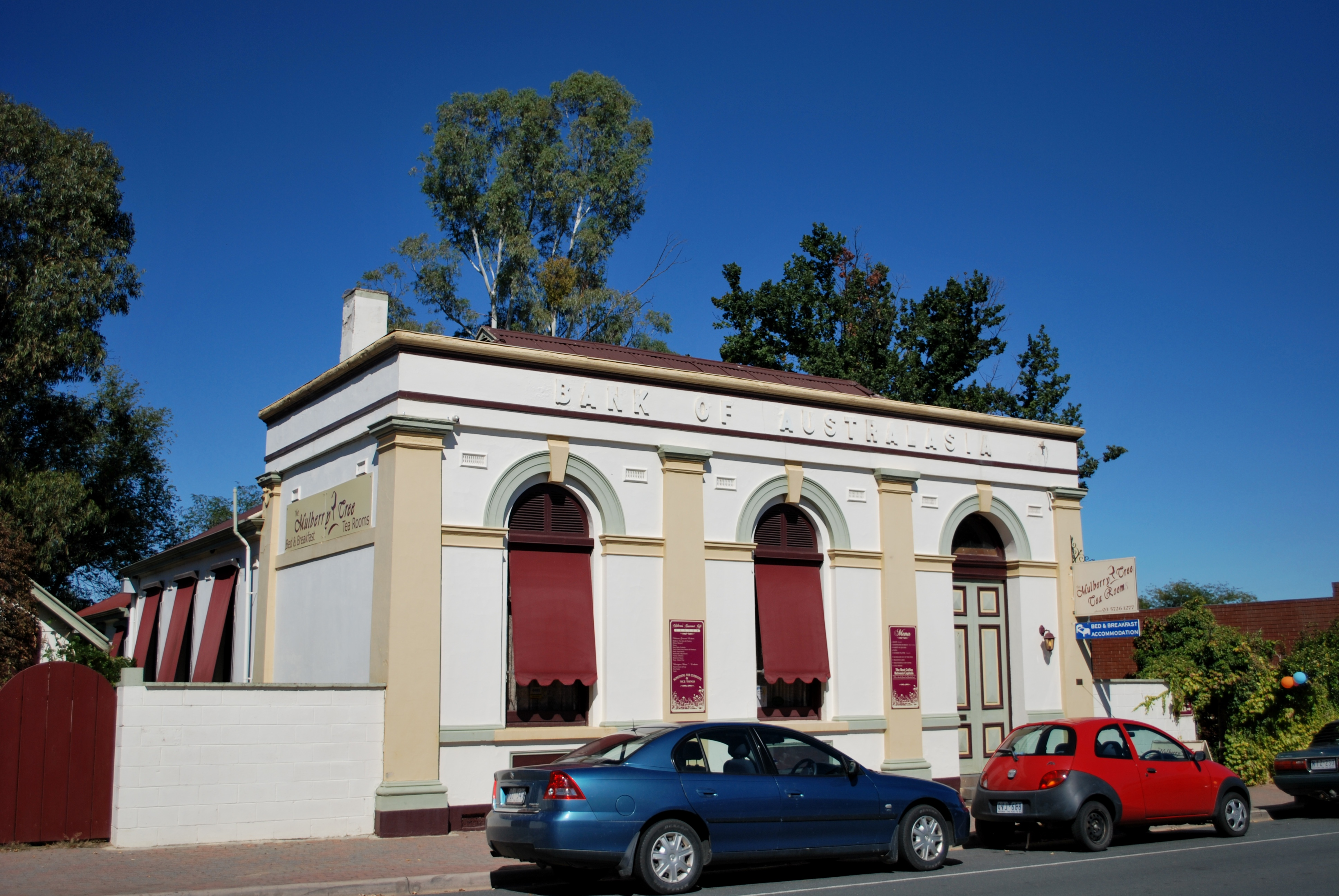 The former Bank of Australasia, now a café, at Chiltern, Victoriaêé